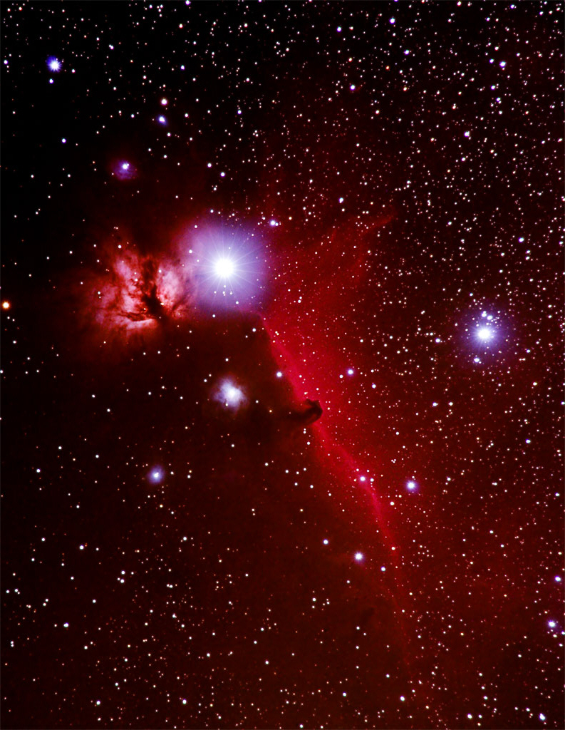 The Horsehead Nebula (also known as Barnard 33 in emission nebula IC 434)